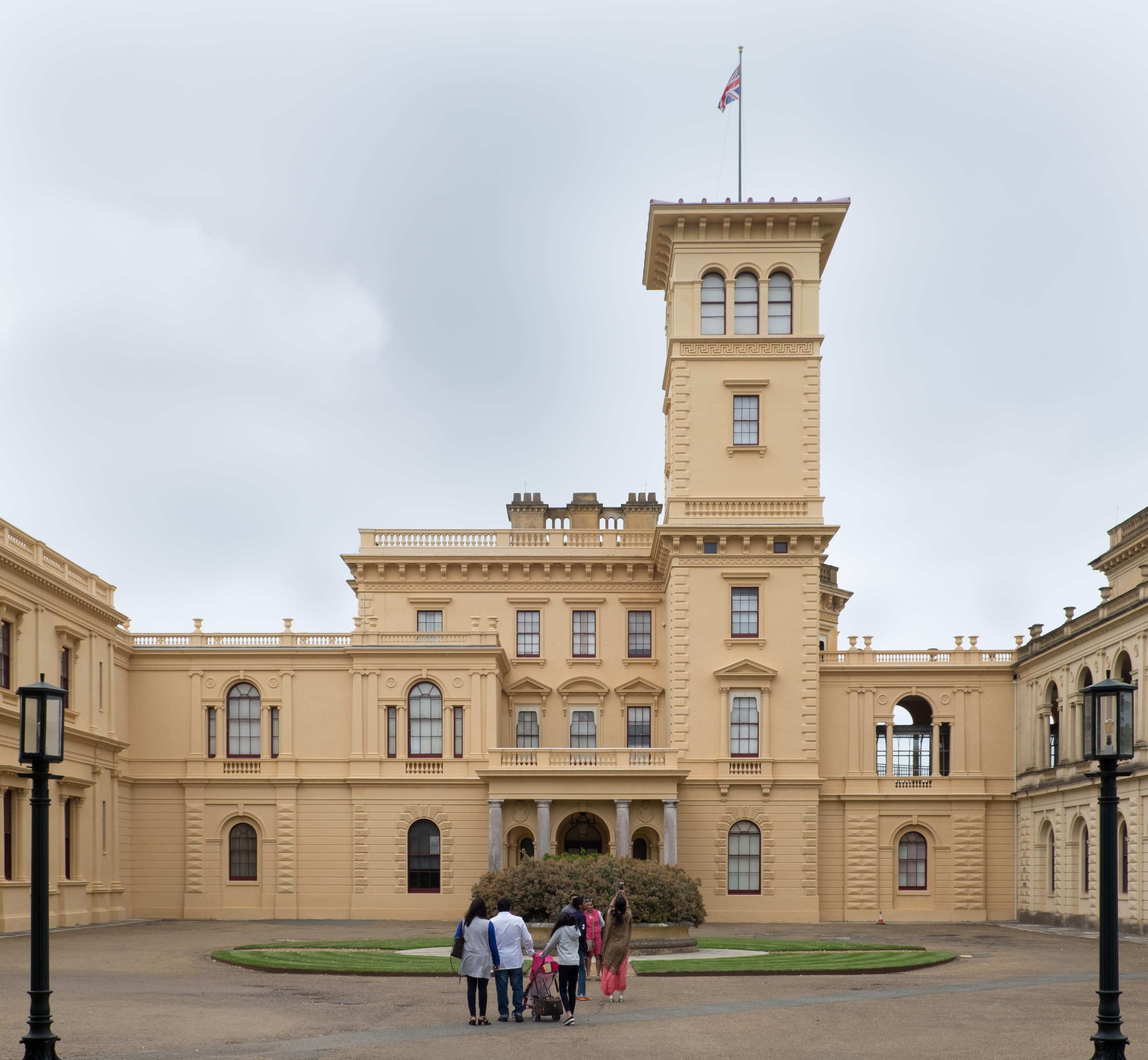 The Pavilion Wing of Osborne House from the south-west. Osborne House is a summer home and rural retreat near East Cowes on the Isle of Wight, designed for Queen Victoria by her husband Prince Albert, and built between 1845 and 1851. The house is a grade I listed building in England.